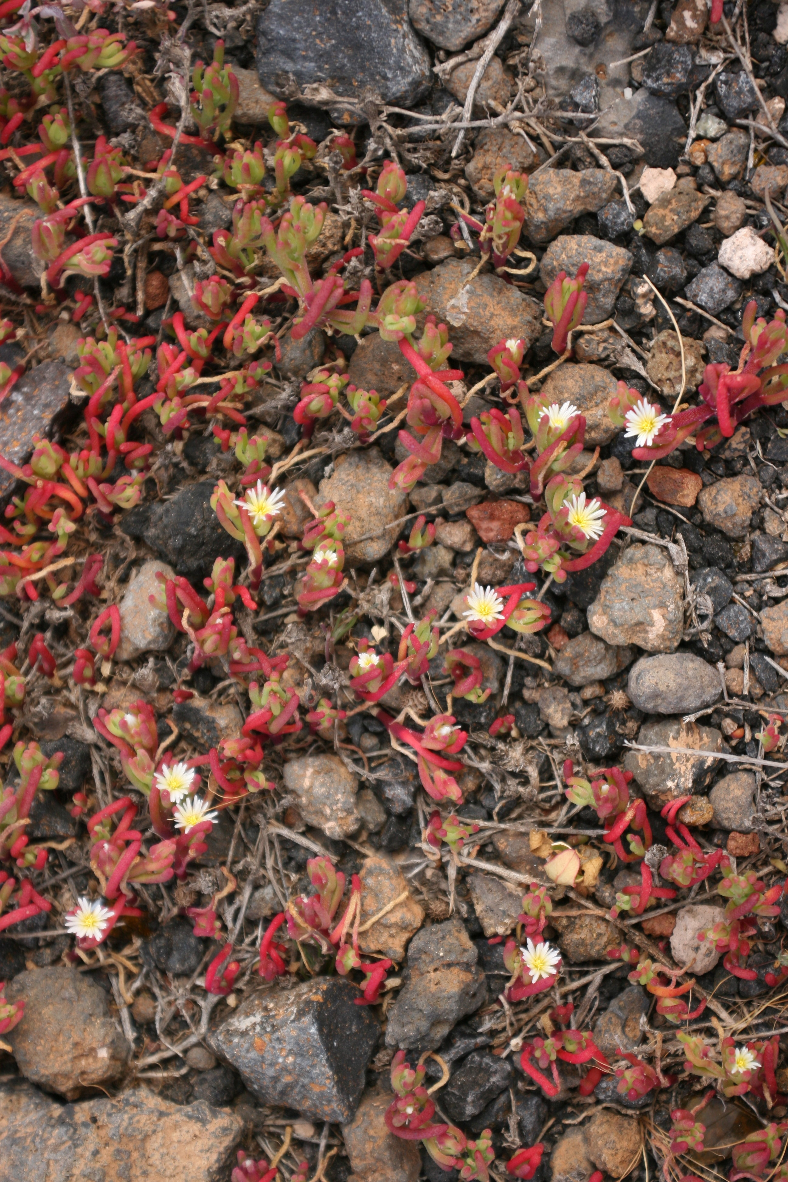 Mesembryanthemum nodiflorum growing on the Caldera de Cuchillo, Lugar de Cuchillo in El Cuchillo, Tinajo, Lanzarote, Canary Islands